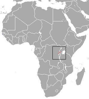 Kahuzi Swamp Shrew (Crocidura stenocephala) range